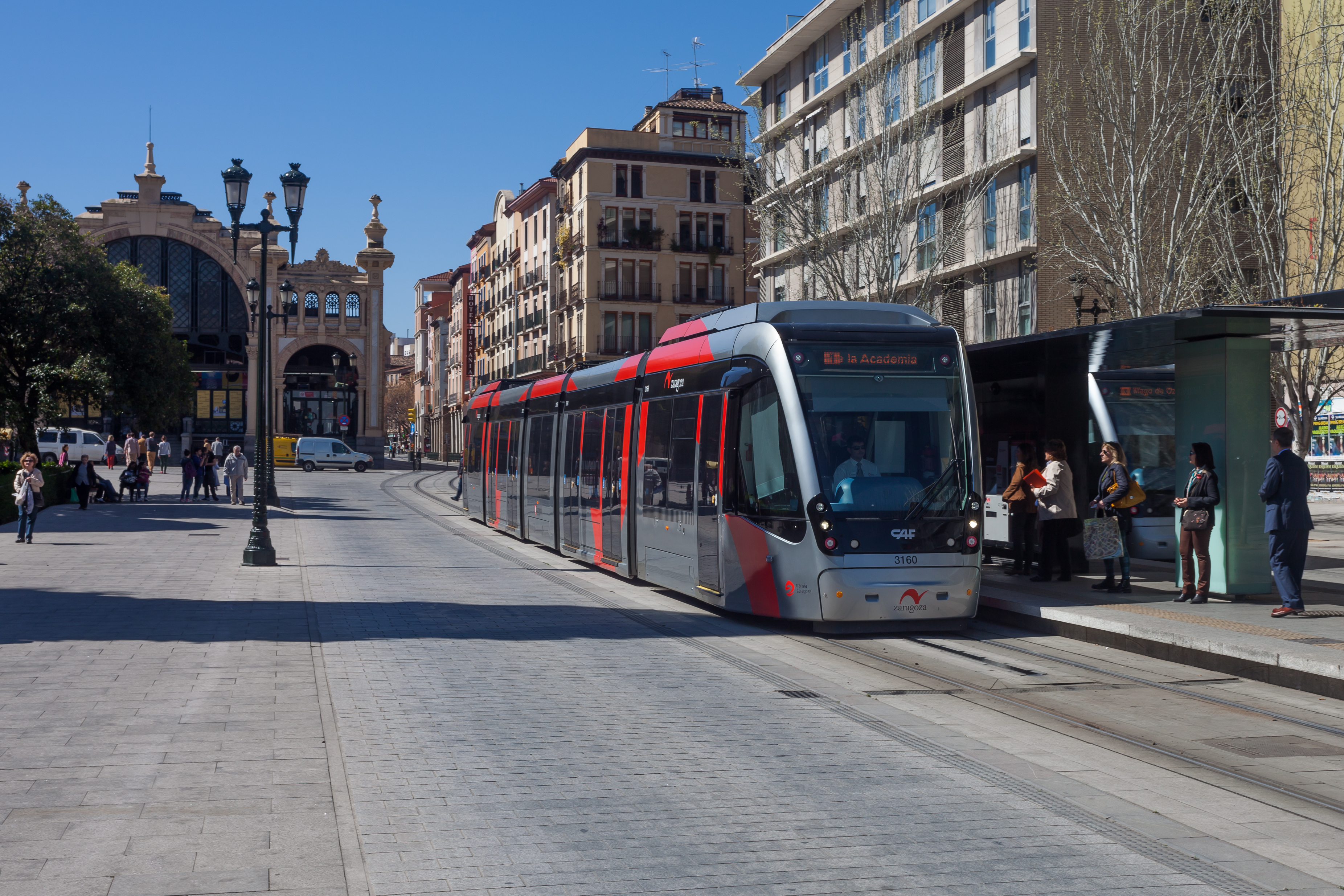 Tram In Zaragoza, Spain